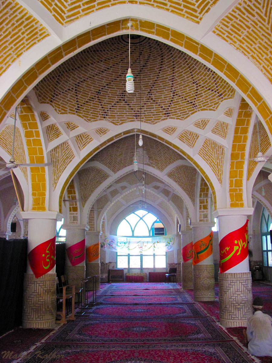 Ancient Jameh Mosque of 'Noosh Abad' (Masjed Jameh), Work of art or art works مسجد جامع عتیق نوش آباد